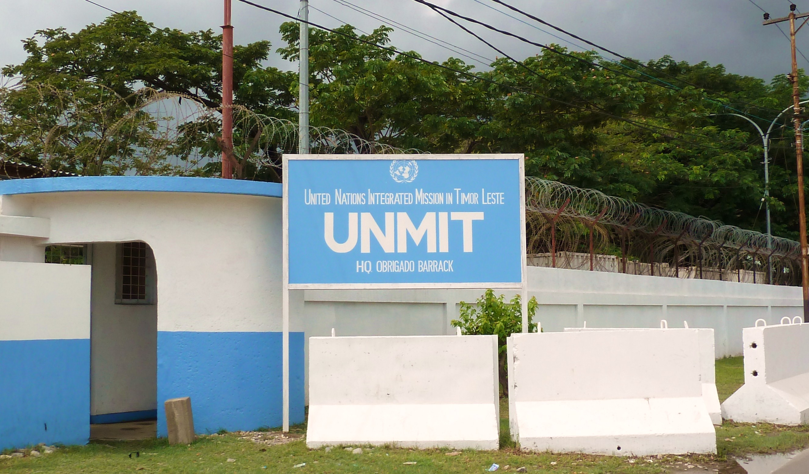 Obrigado Barracks, UNMIT HQ East Timor, Dili